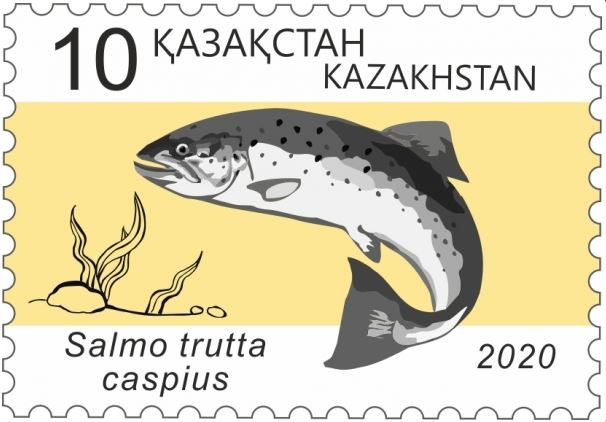 1228. Fauna.Red Book of Kazakhstan. Fish of Kazakhstan